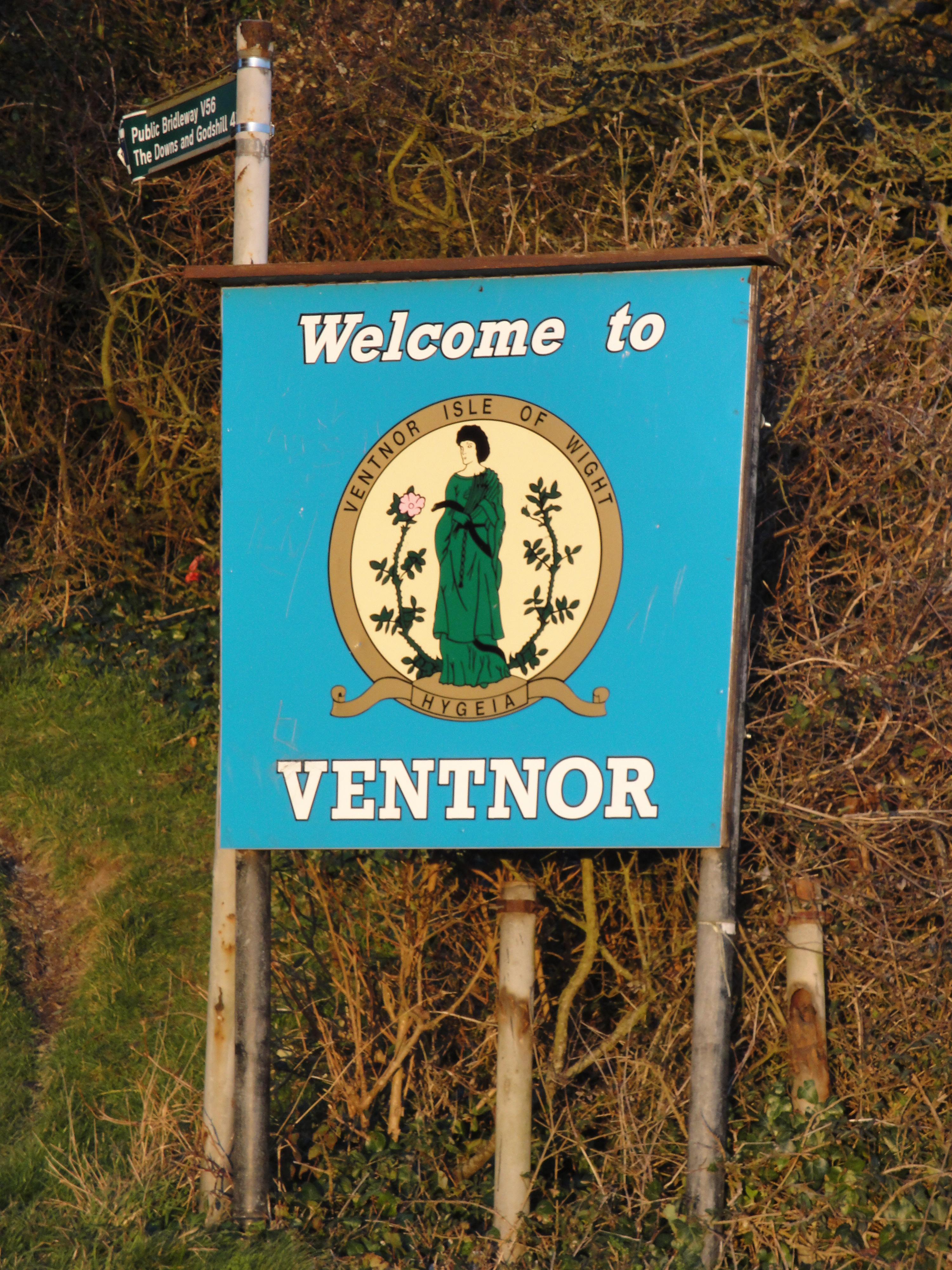 The sign entering Ventnor on the Isle of Wight on Whitwell Road.